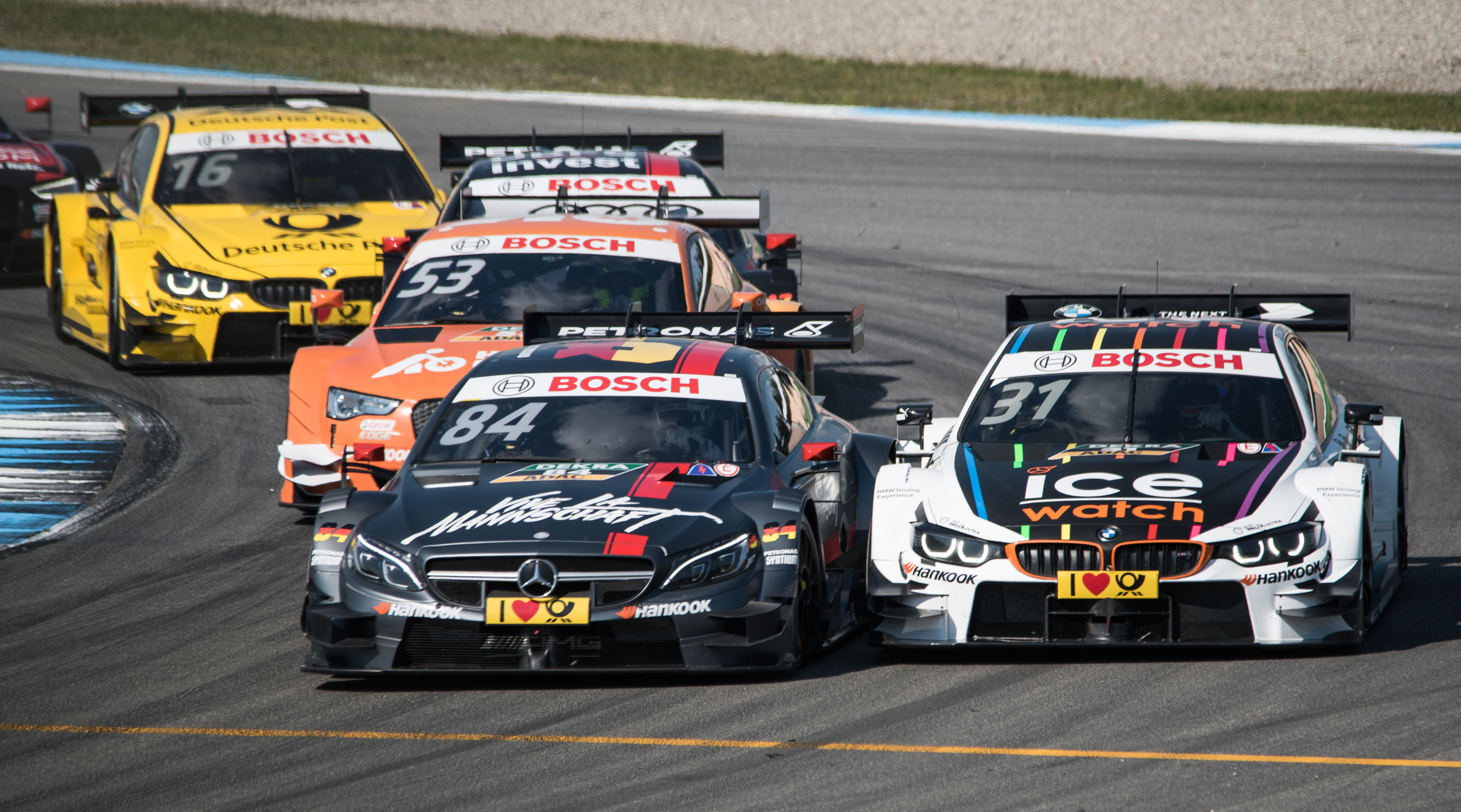 84 Maximilian Götz, Mercedes-AMG C63 DTM 31 Tom Blomqvist, ICE Watch BMW M4 DTM